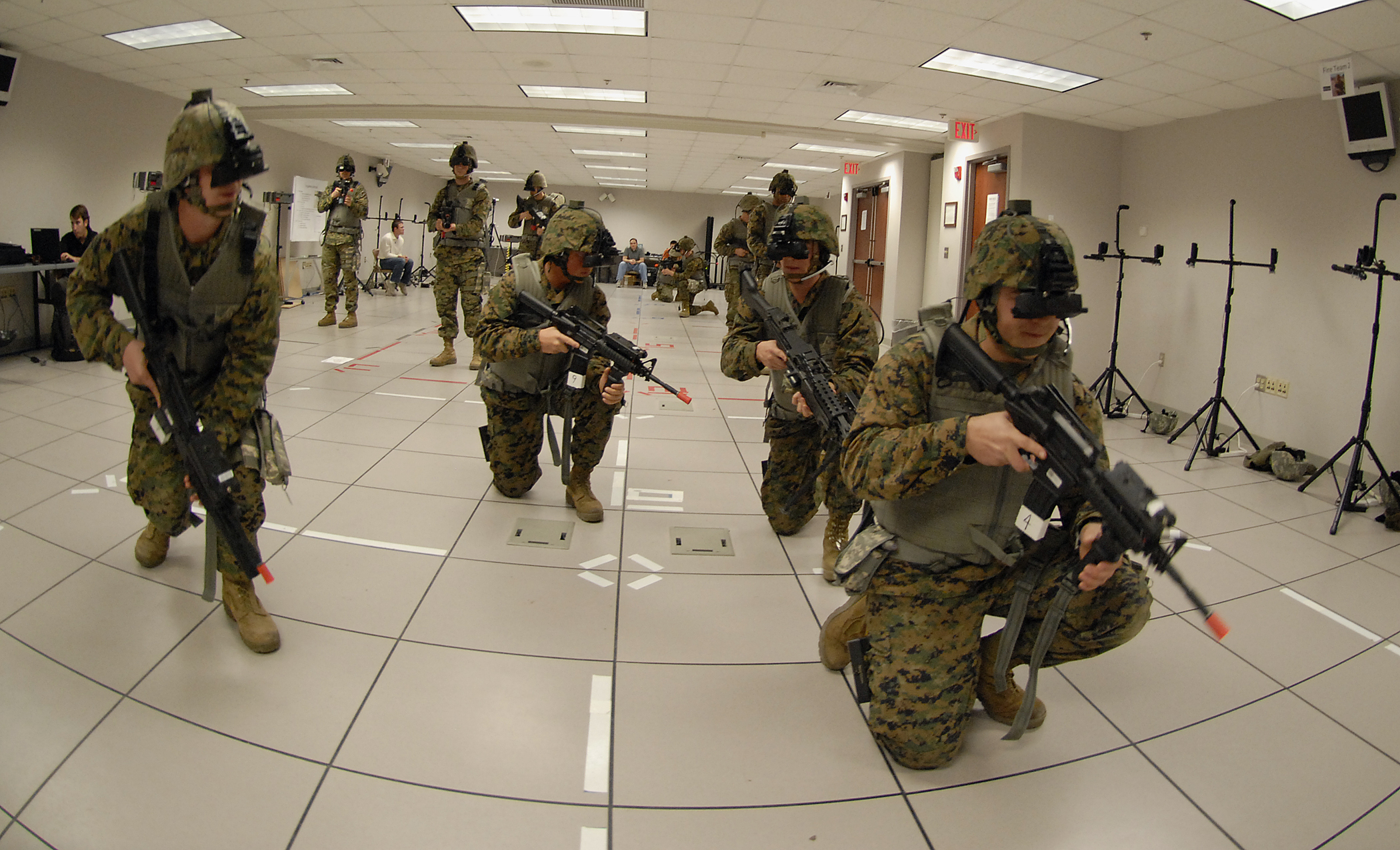 Marines from the 2d Battalion, 8th Marine Regiment, train with the Future Immersive Training Environment Joint Capabilities Technology Demonstration virtual reality system in the simulation center at Camp Lejeune, N.C. Sponsored by the US Joint Forces Command, with technical management provided by the Office of Naval Research, the FITE JCTD allows an individual wearing a self-contained virtual reality system, with no external tethers and a small joystick mounted on the weapon, to operate in a realistic virtual world displayed in a helmet mounted display.